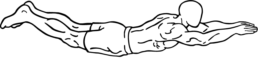 an exercise of lower back